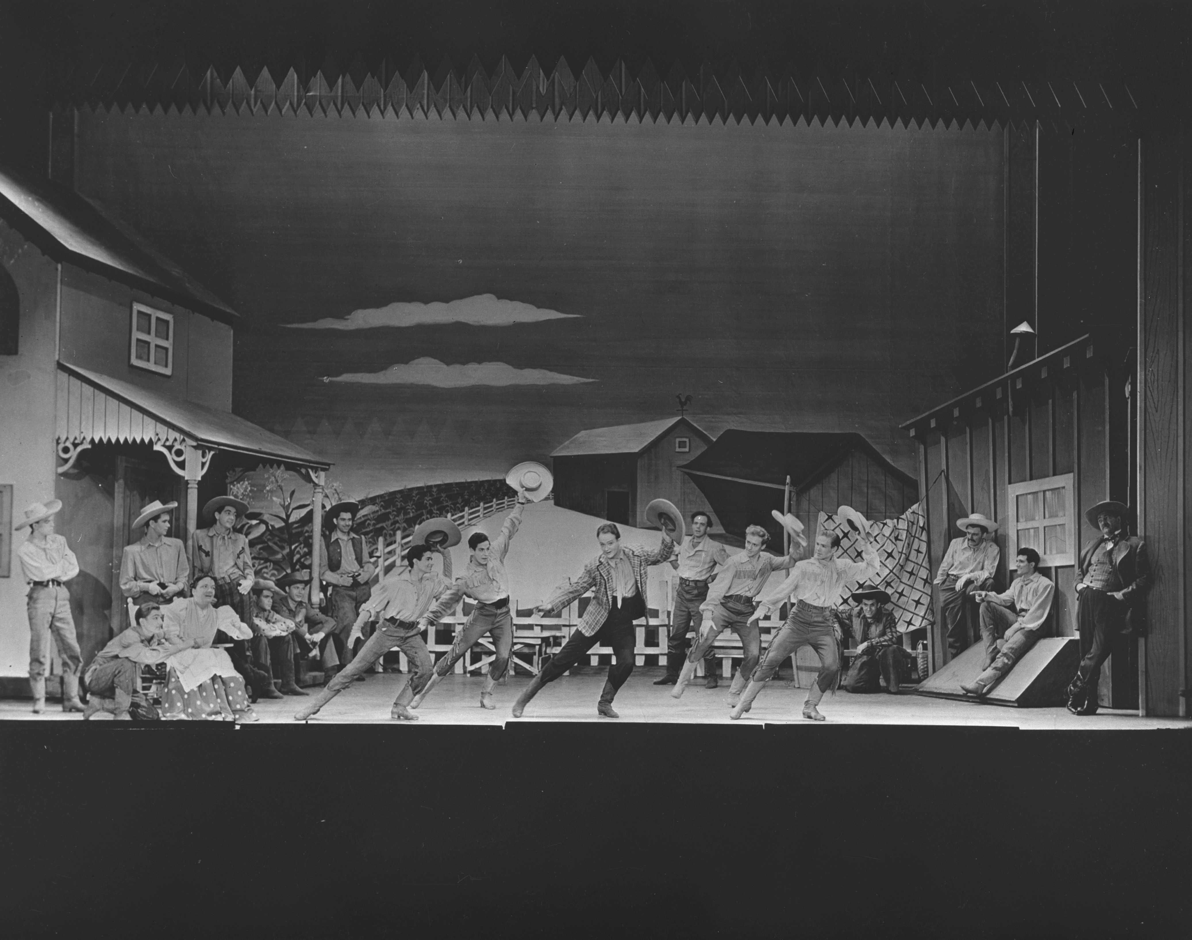 [Scene from "Oklahoma," 1943-1944. Theatre Guild production]